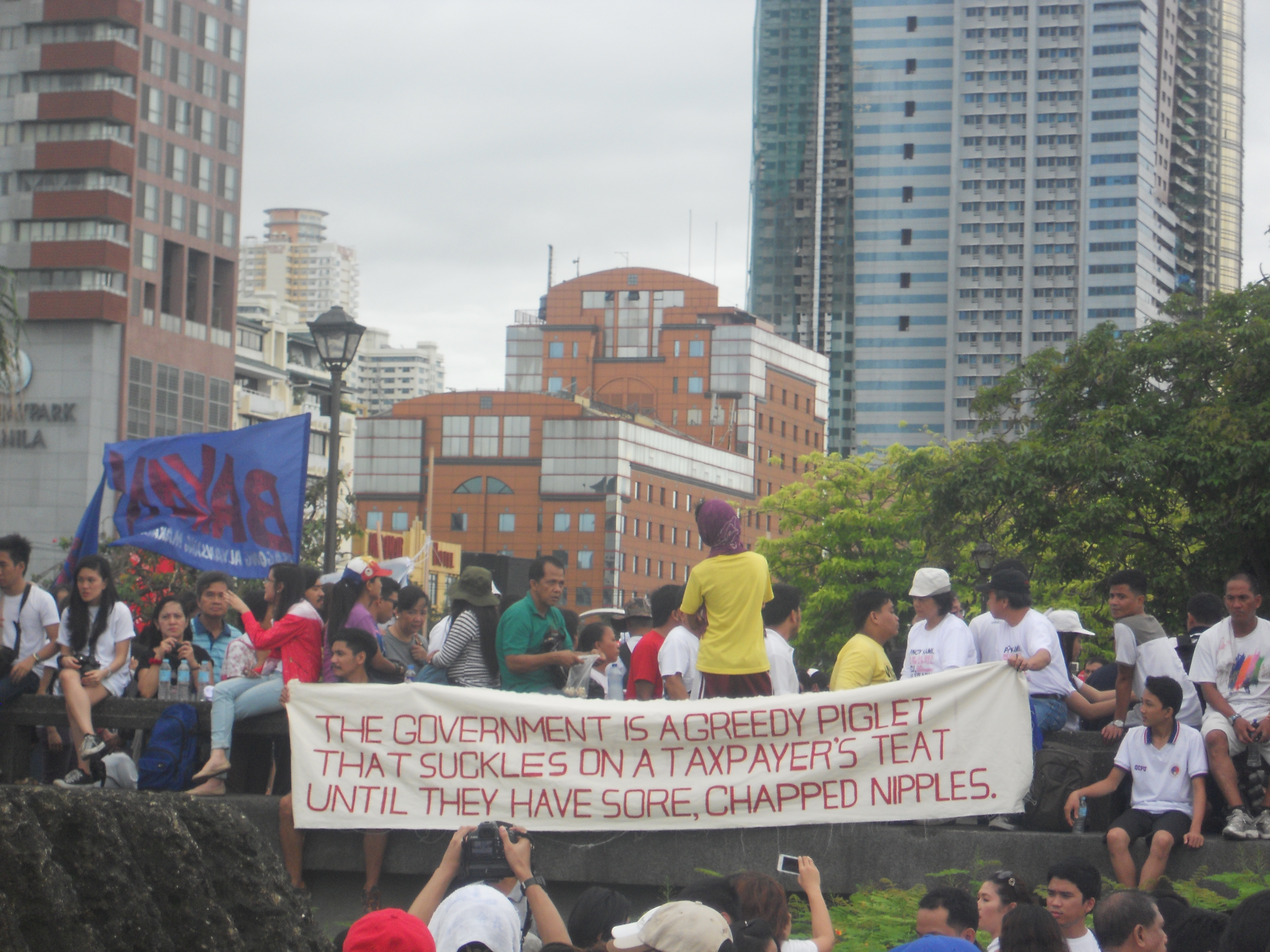 Million People March in Luneta against Pork Barrel